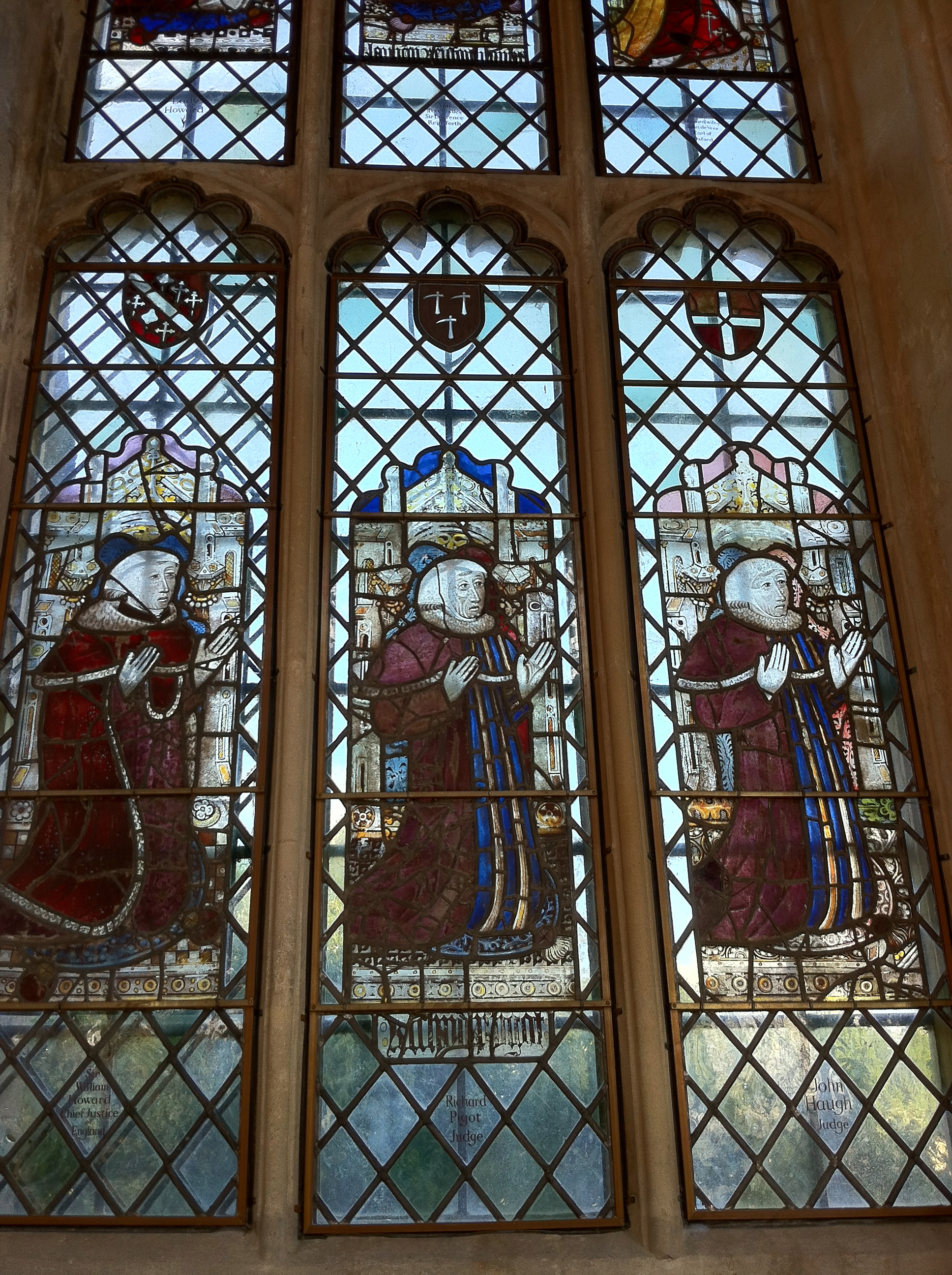 Stained glass (late 15th.c. in Holy Trinity Church, Long Melford, Suffolk. Three Judges, l to r: Sir William Howard (d.1308) Chief Justice of England; Richard Pigot (d.1483), Judge & Sergeant-at-Law to King Edward IV; John Haugh (d.1489), a Justice of the Court of Common Pleas. (Source: The Common Lawyers of Pre-Reformation England: Thomas Kebell: A Case Study By E. W. Ives, p.410[1])